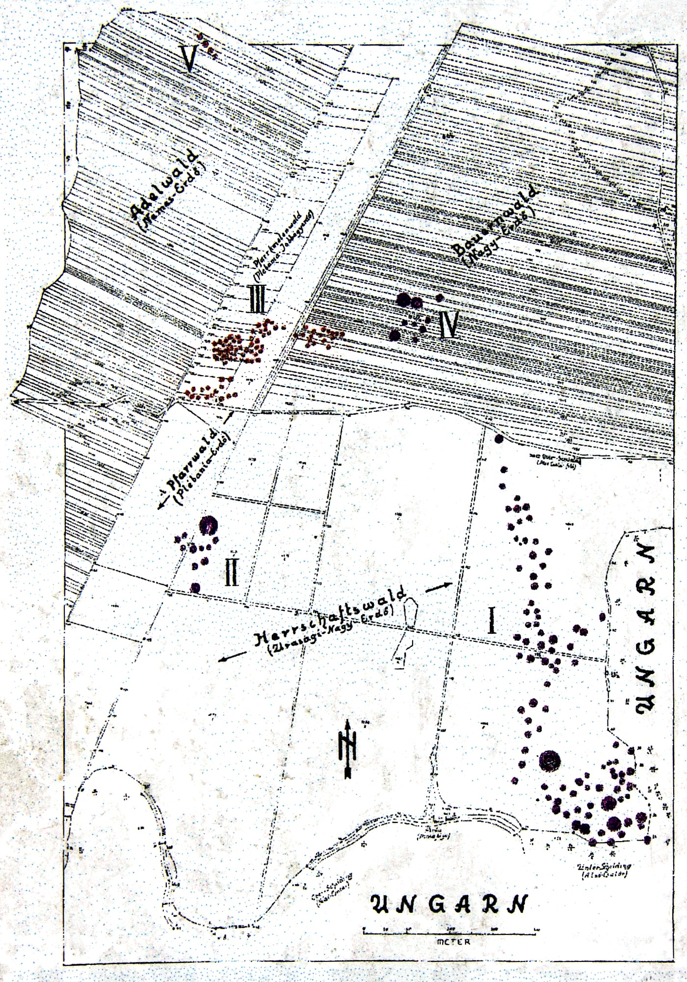 Schandorf - Information board Tumulis at Bauernwald